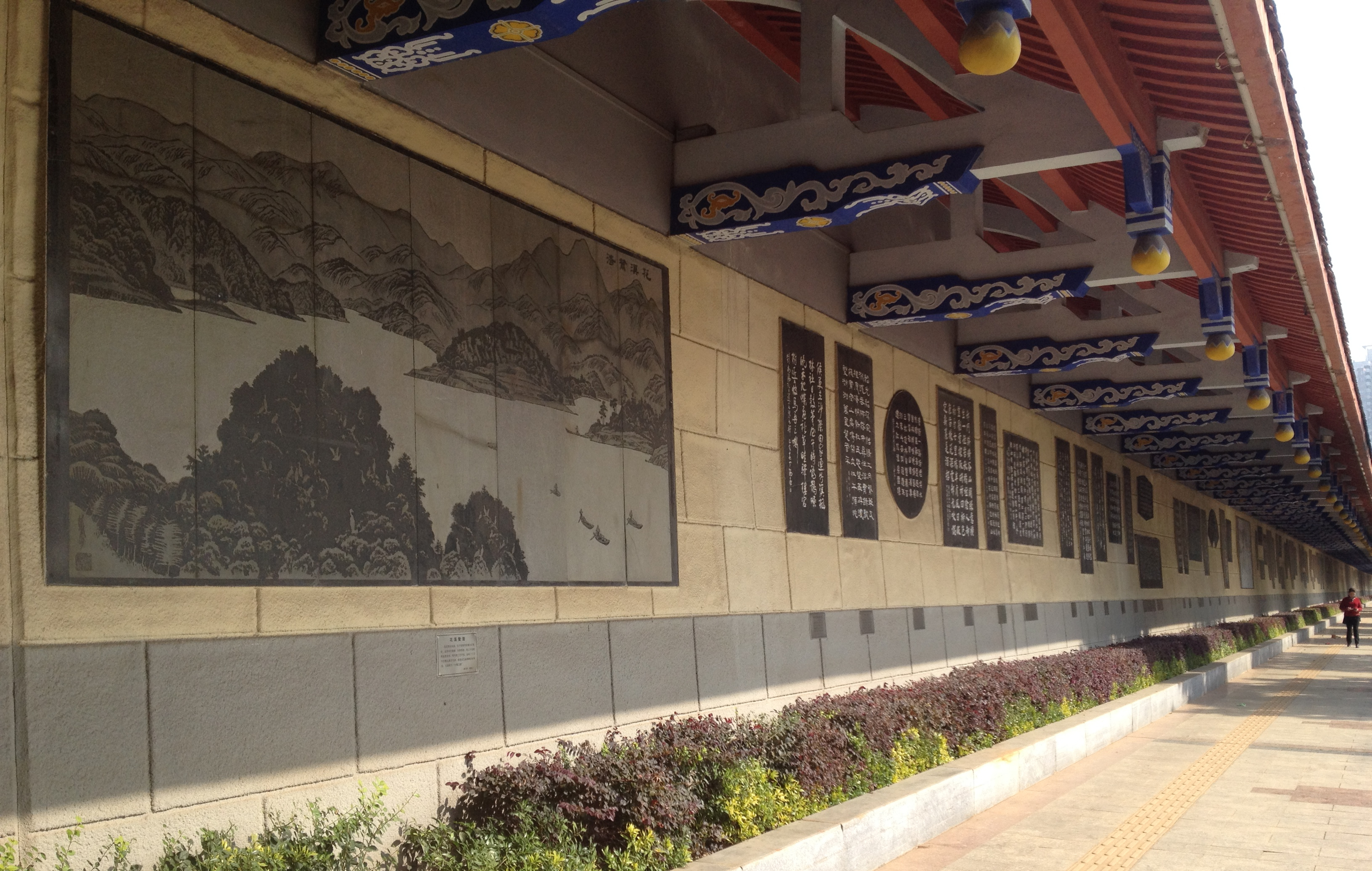 Photograph of the Poetry Wall in Changde, Hunan also known as Changde Poem Wall.